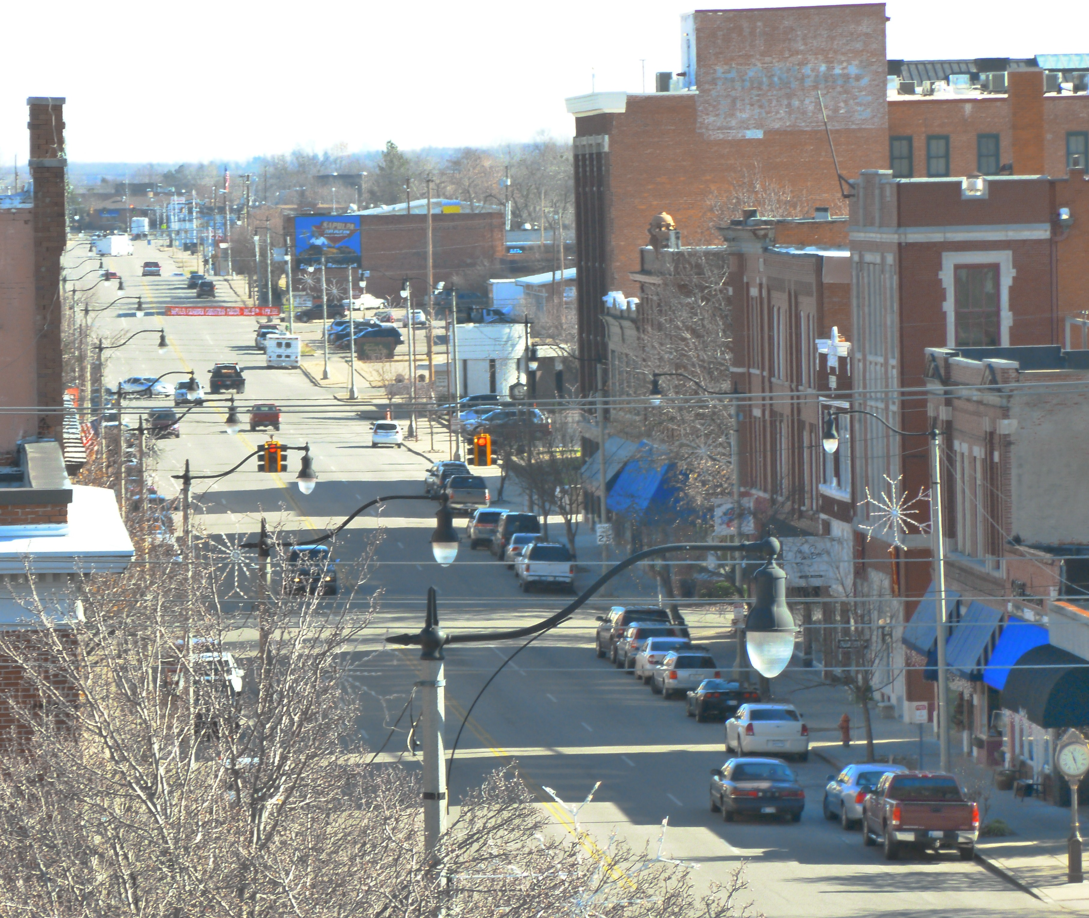 This is a view of downtown Sapulpa, facing east from atop the Young Building.